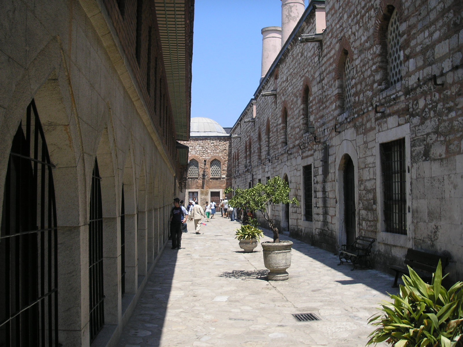 View of the palace kitchen with the chimneys in Topkapi Palace.